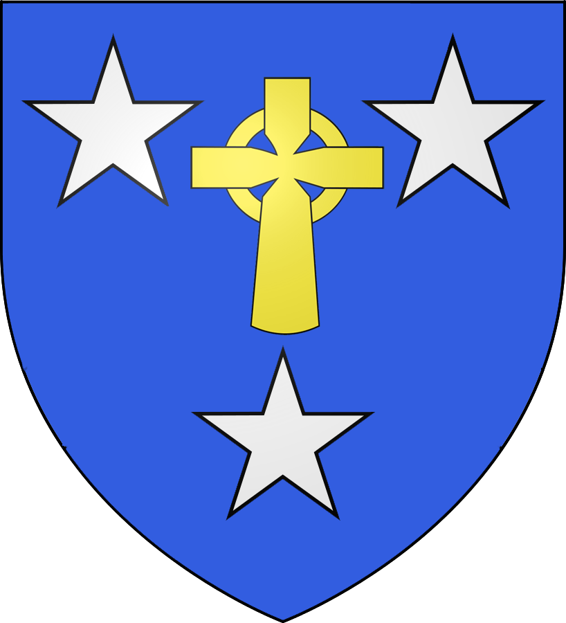 Coat of arms of the O'Devlin.